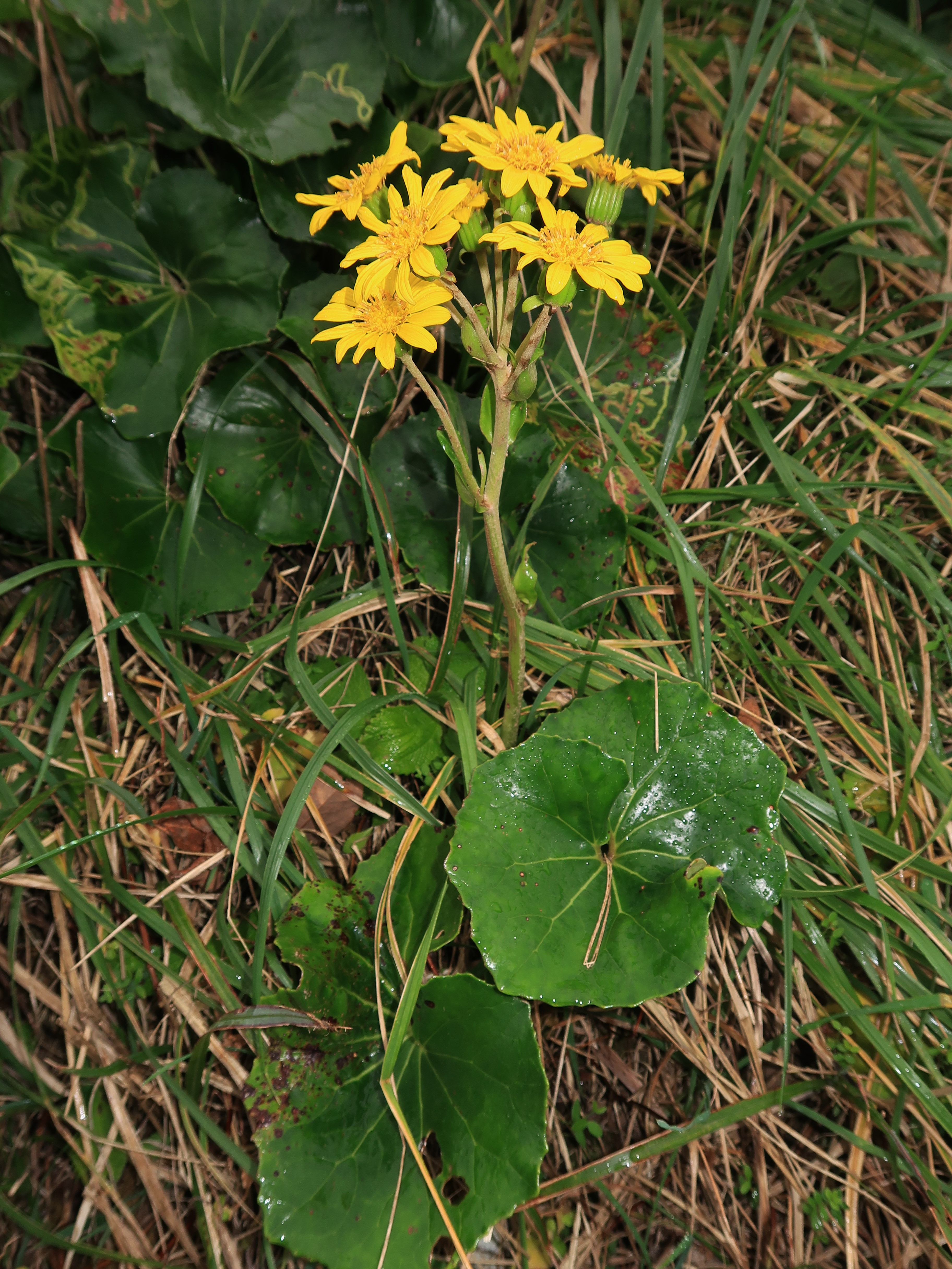 Farfugium japonicum, Hama-dori area, Fukushima pref., Japan